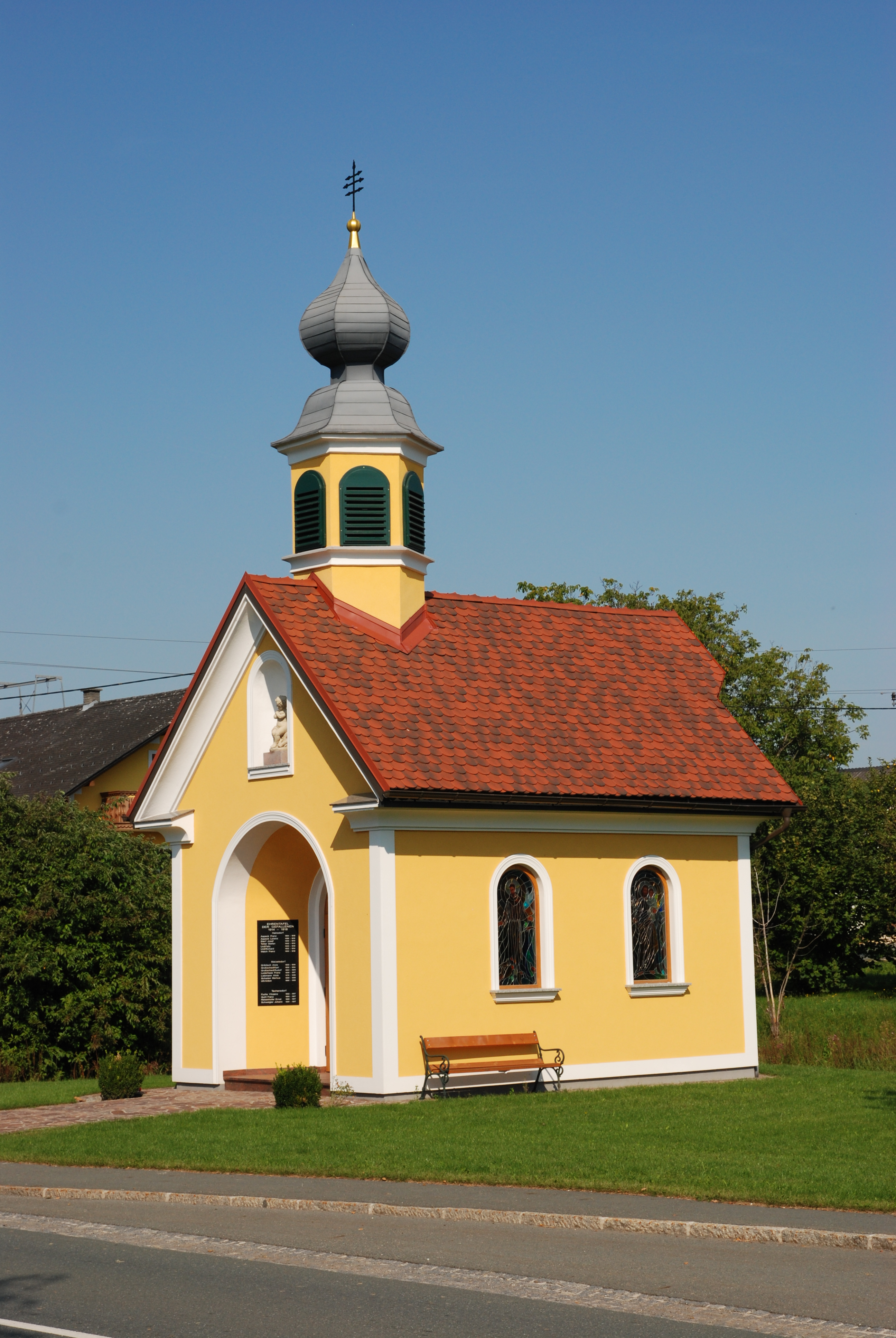 Kapelle Hainsdorf im Schwarzautal